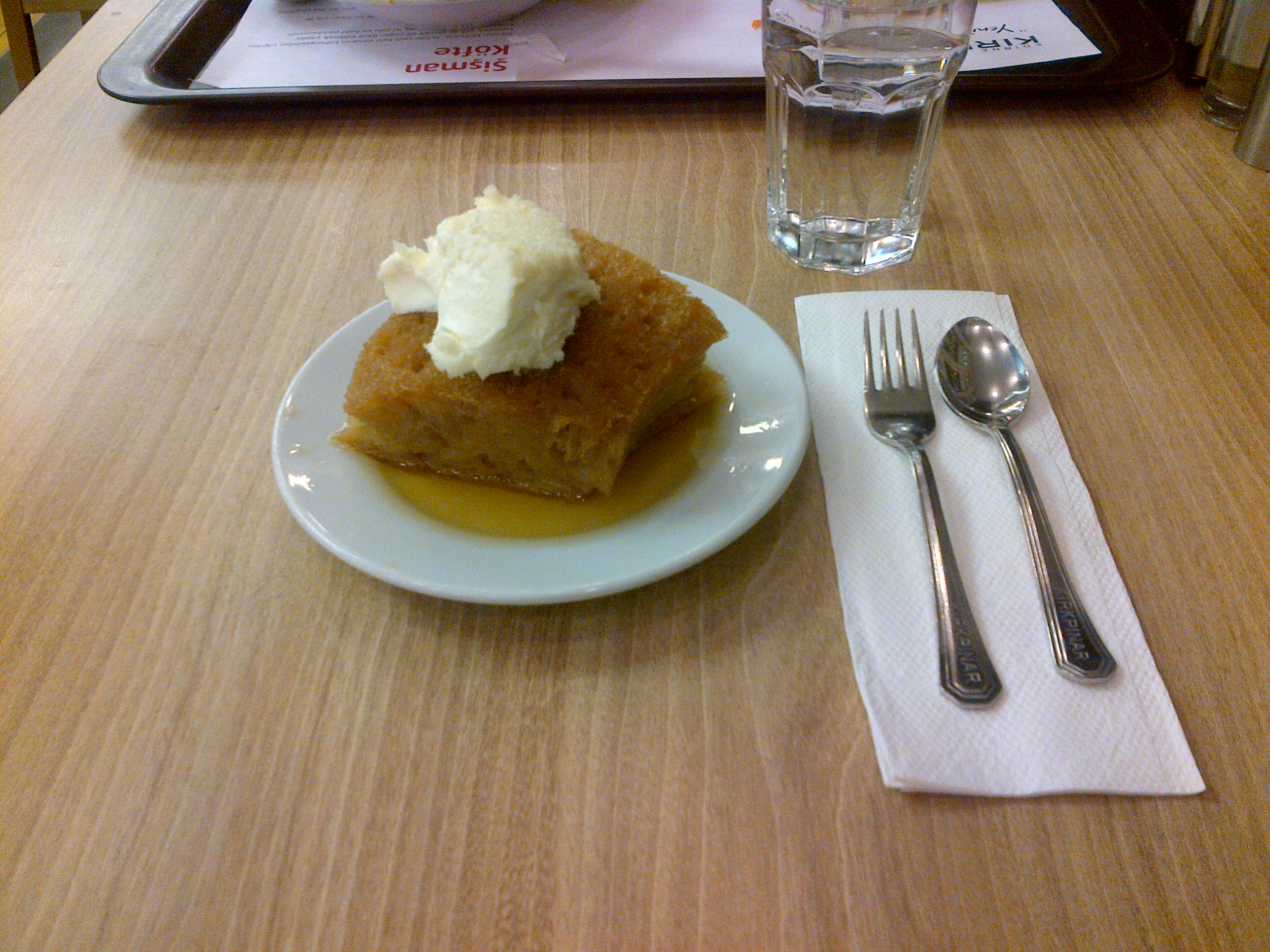 Ekmek kadayıfı con kaymak, de la cocina turca.